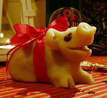 Photo of the danish traditional price to the winner of the almond at the Christmas dinner. The price is molded as a pig in Marzipan.